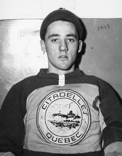 Plante in 1948 with the Citadelles Québec Hockey Team